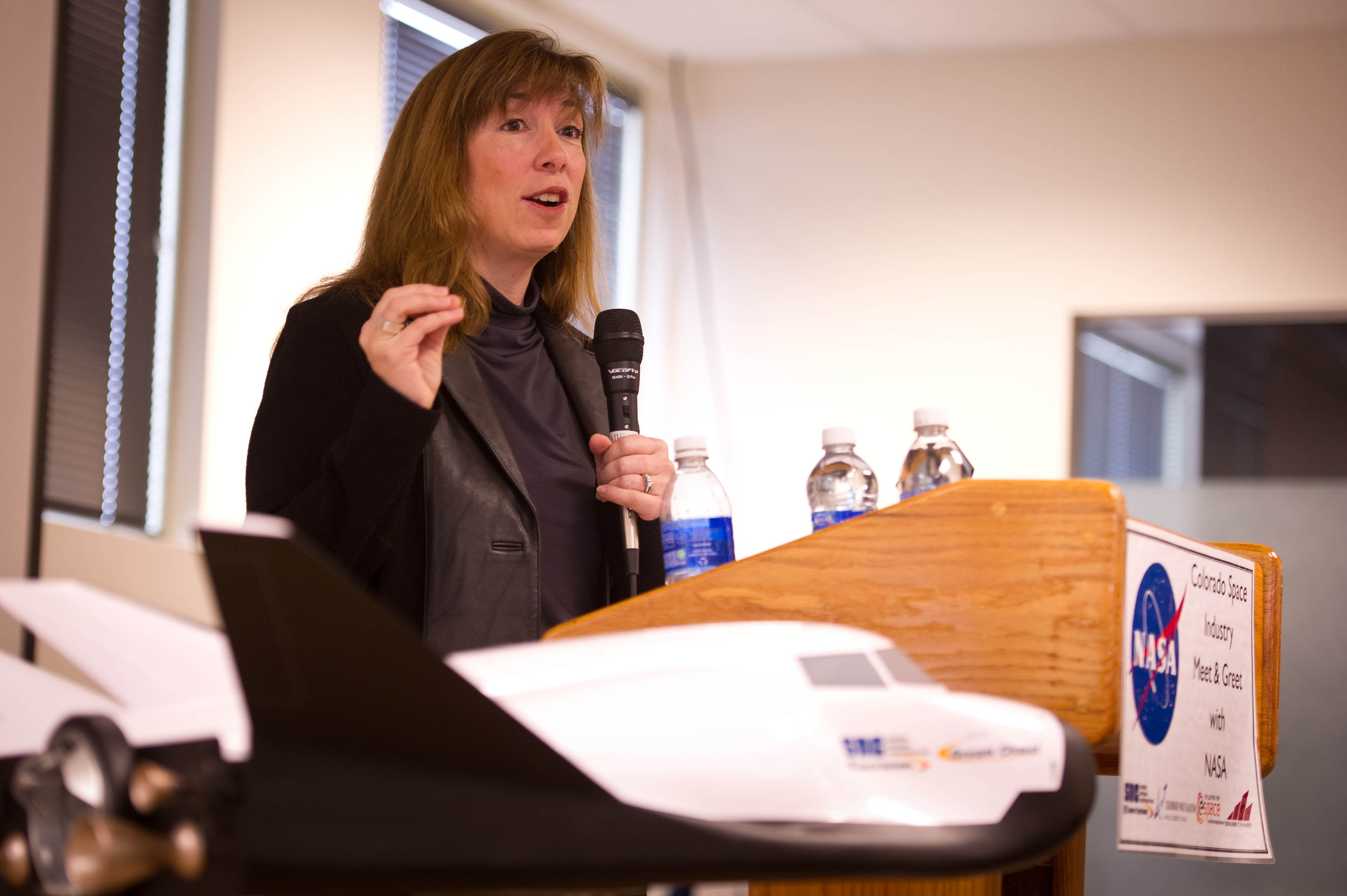 NASA Deputy Administrator Lori Garver speaks at Sierra Nevada Space Systems, on Saturday, Feb. 5, 2011, in Louisville, Colo. Sierra Nevada's Dream Chaser spacecraft is under development with support from NASA's Commercial Crew Development Program to provide crew transportation to and from low Earth orbit. NASA is helping private companies develop innovative technologies to ensure that the U.S. remains competitive in future space endeavors.